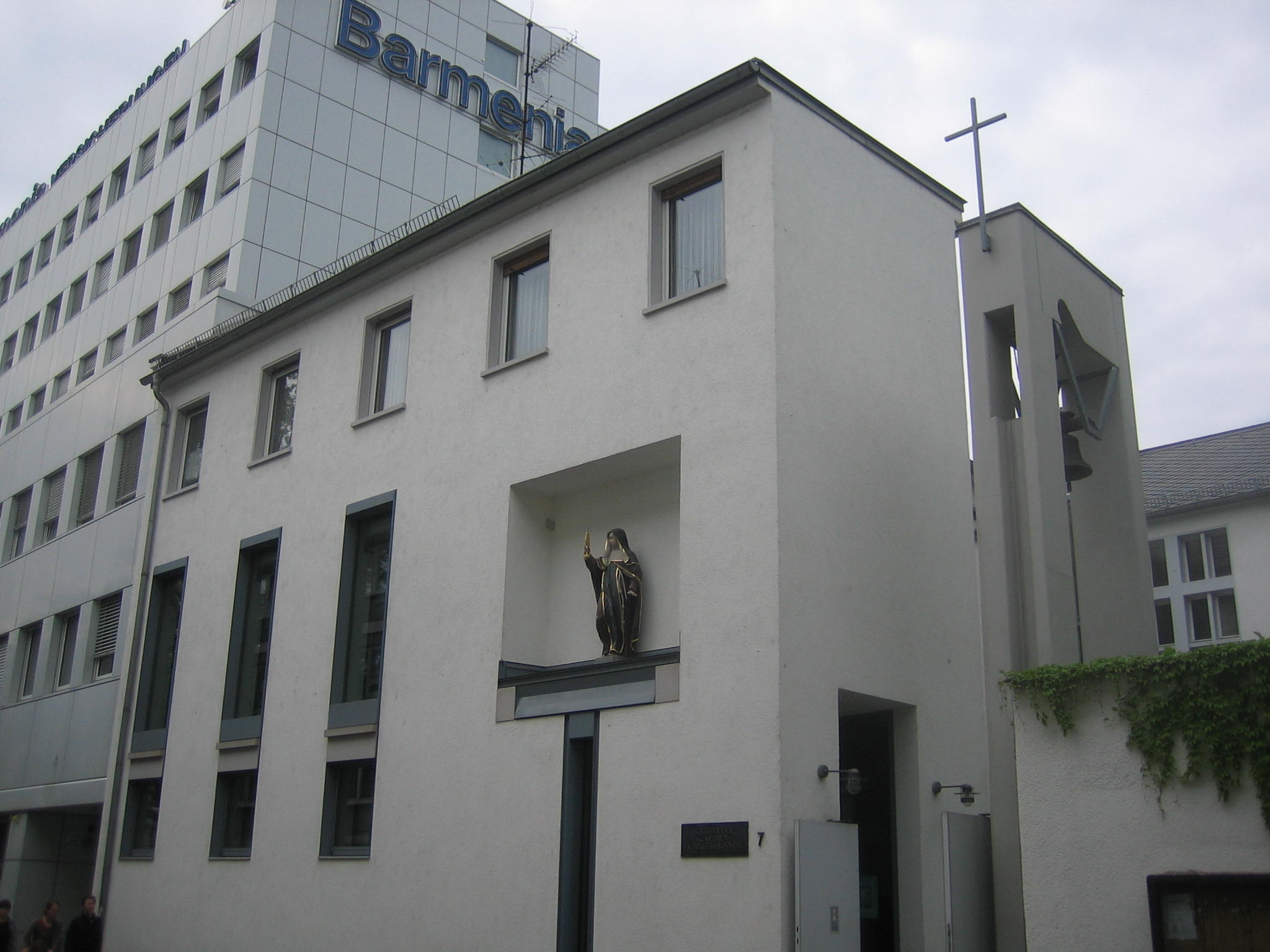 Cloister of the Capuchin Poor Clares of the Perpetual Adoration in Mainz